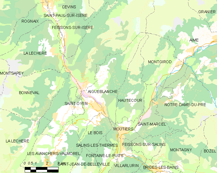 Map of French municipality